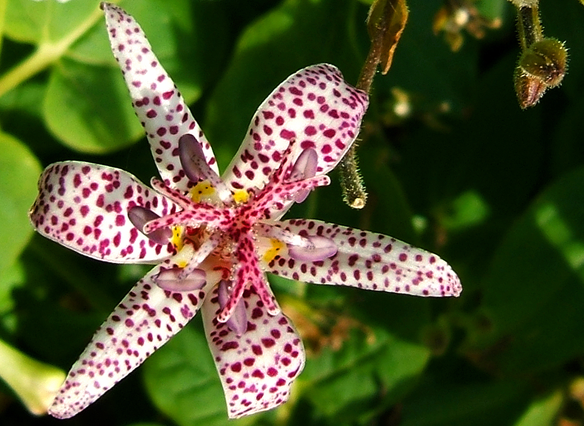 Tricyrtis